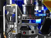 Inspection of a disk brake using laser equipment.